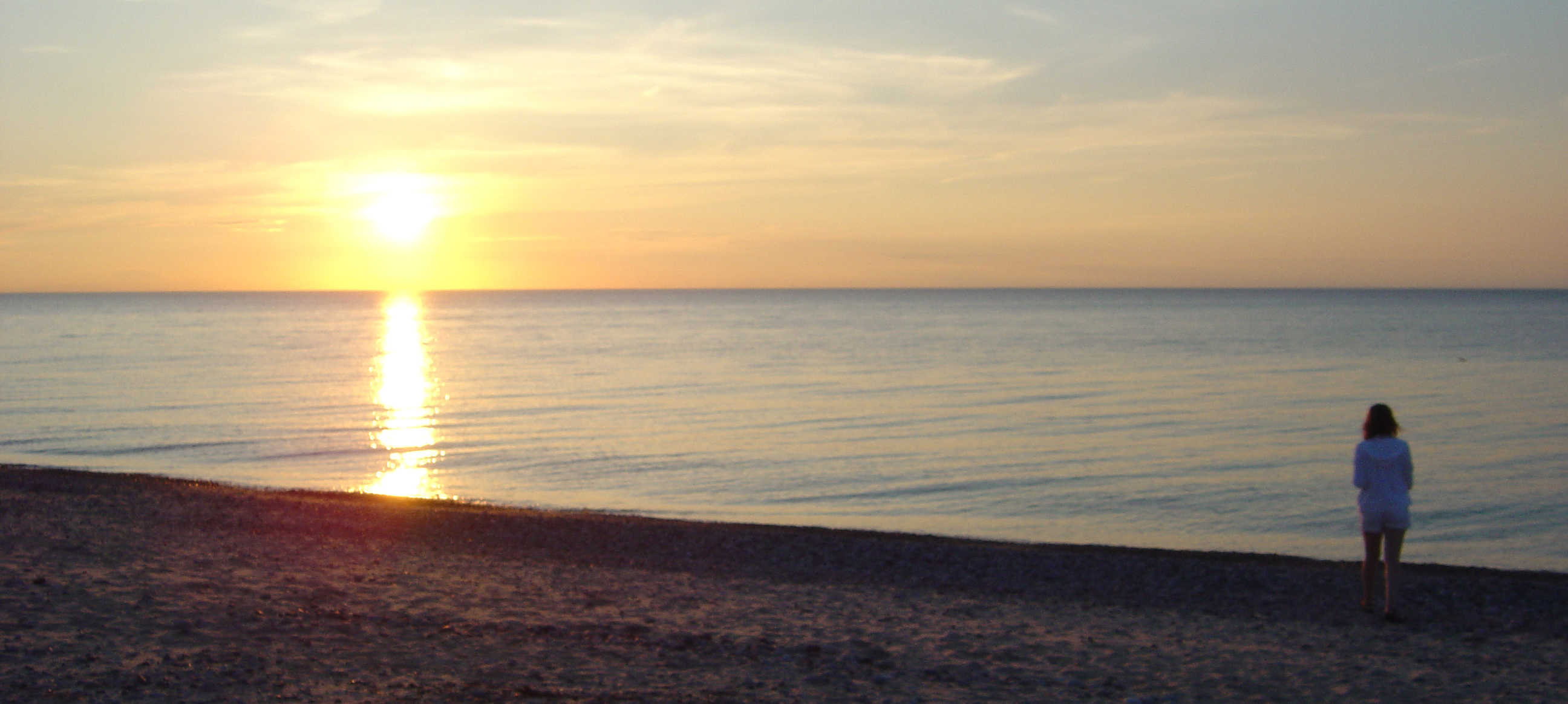 Lake Superior at Sunset, near the mouth of the Two-Hearted River in the Upper Peninsula of Michigan (Newberry, MI)